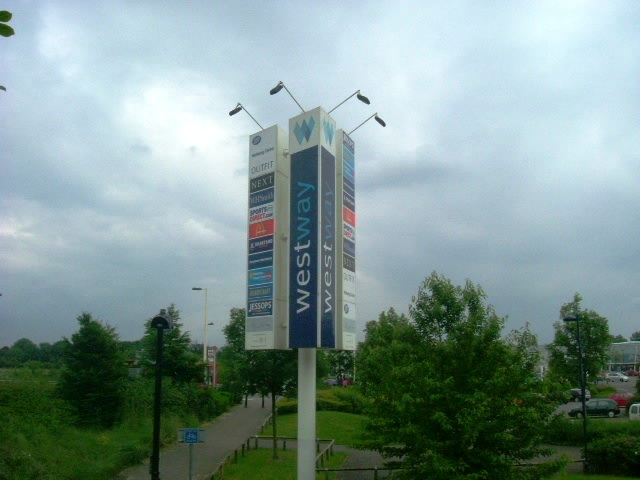 Westway Cross shopping centre, Greenford A sign for the Westway Cross shopping centre, off of Greenford Road North.